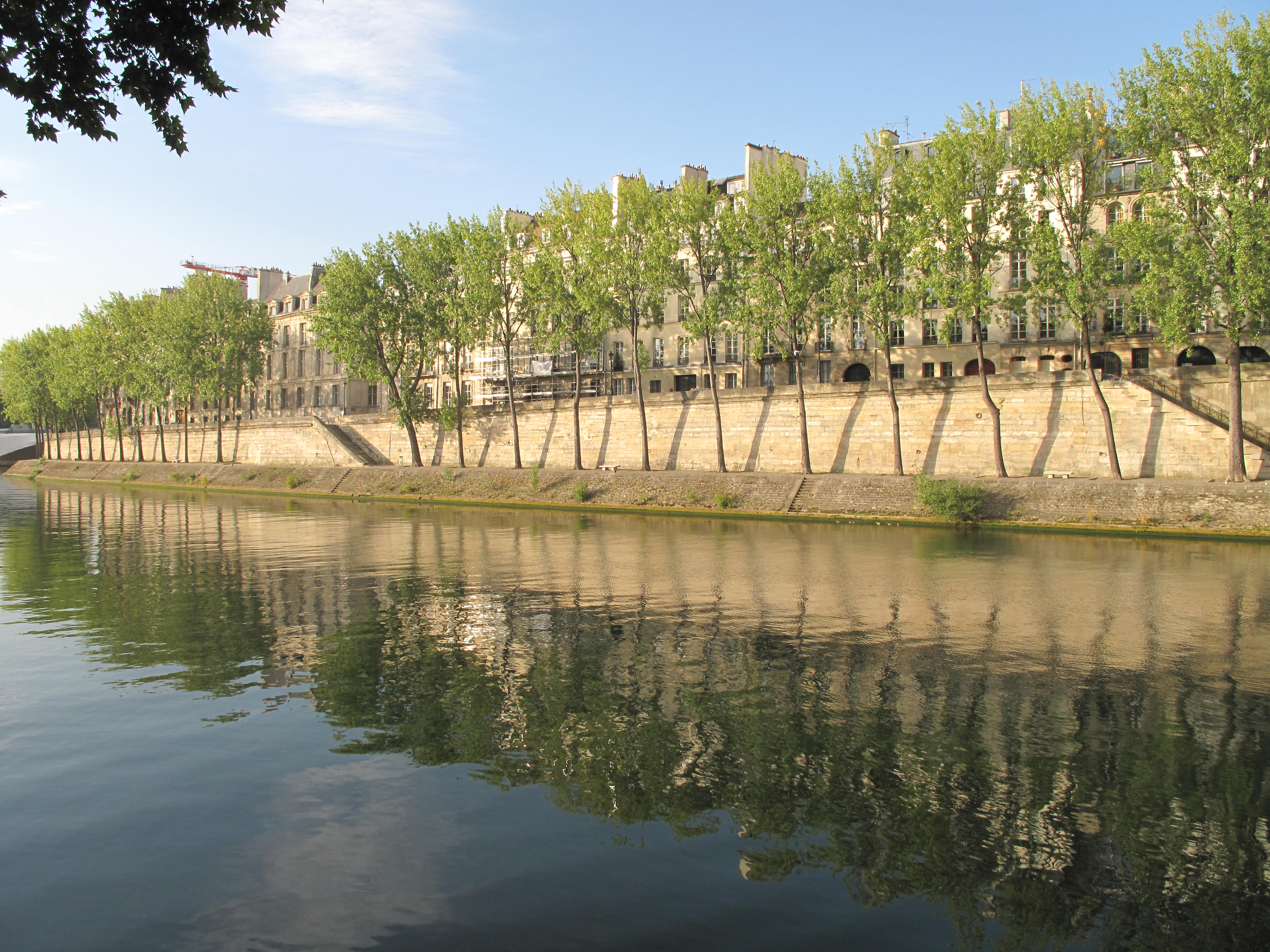 The quai d'Anjou on a summer morning, Paris 4th arrond.